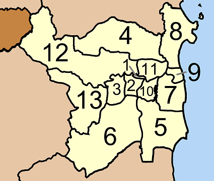 Map of Lang Suan district, Chumphon province, with the communes (tambon) numbered Lang Suan (หลังสวน) Khan Ngoen (ขันเงิน) Tha Ma Phla (ท่ามะพลา) Na Kha (นาขา) Na Phaya (นาพญา) Ban Khuan (บ้านควน) Bang Maphrao (บางมะพร้าว) Bang Namchuet (บางน้ำจืด) Paknam (ปากน้ำ) Pho Daeng (พ้อแดง) Laem Sai (แหลมทราย) Wang Tako (วังตะกอ) Hat Yai (หาดยาย)